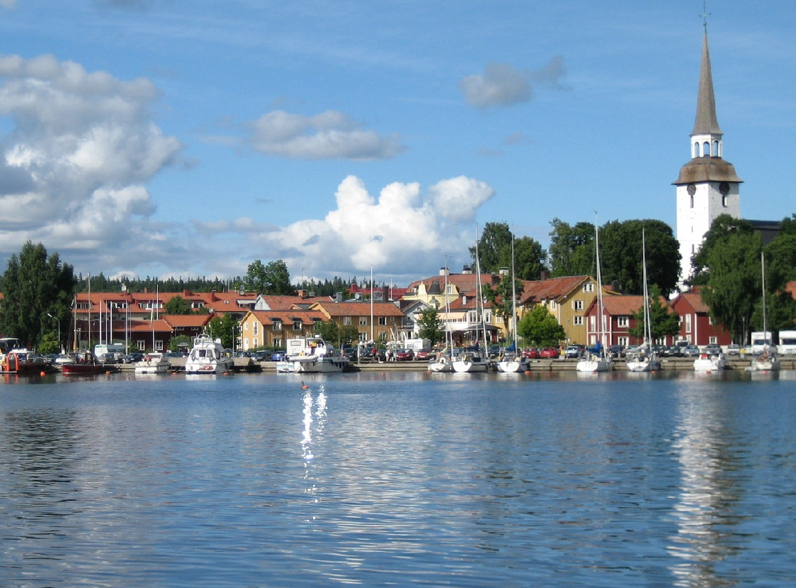 photo taken and uploaded by purple. Photo taken in August 2005. This picture is released to the public domain